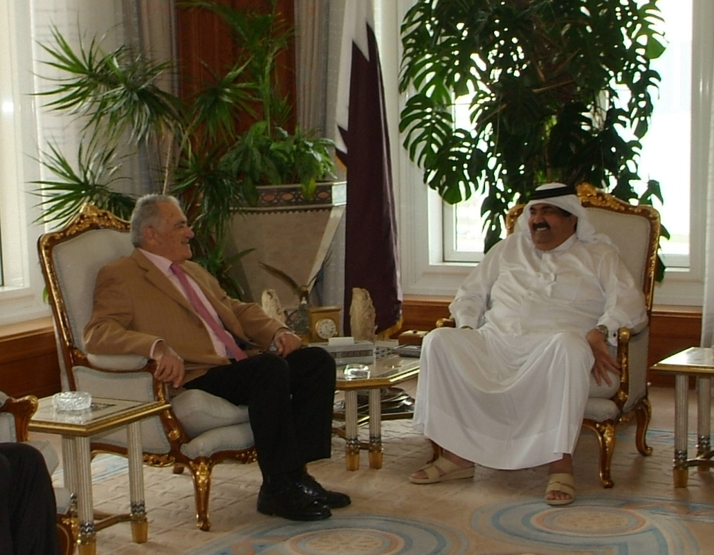 Antoine Nehme (left) with a private audience with H.H. Sheikh Hamad Bin Khalifah Al Thani, Emir of Qatar.